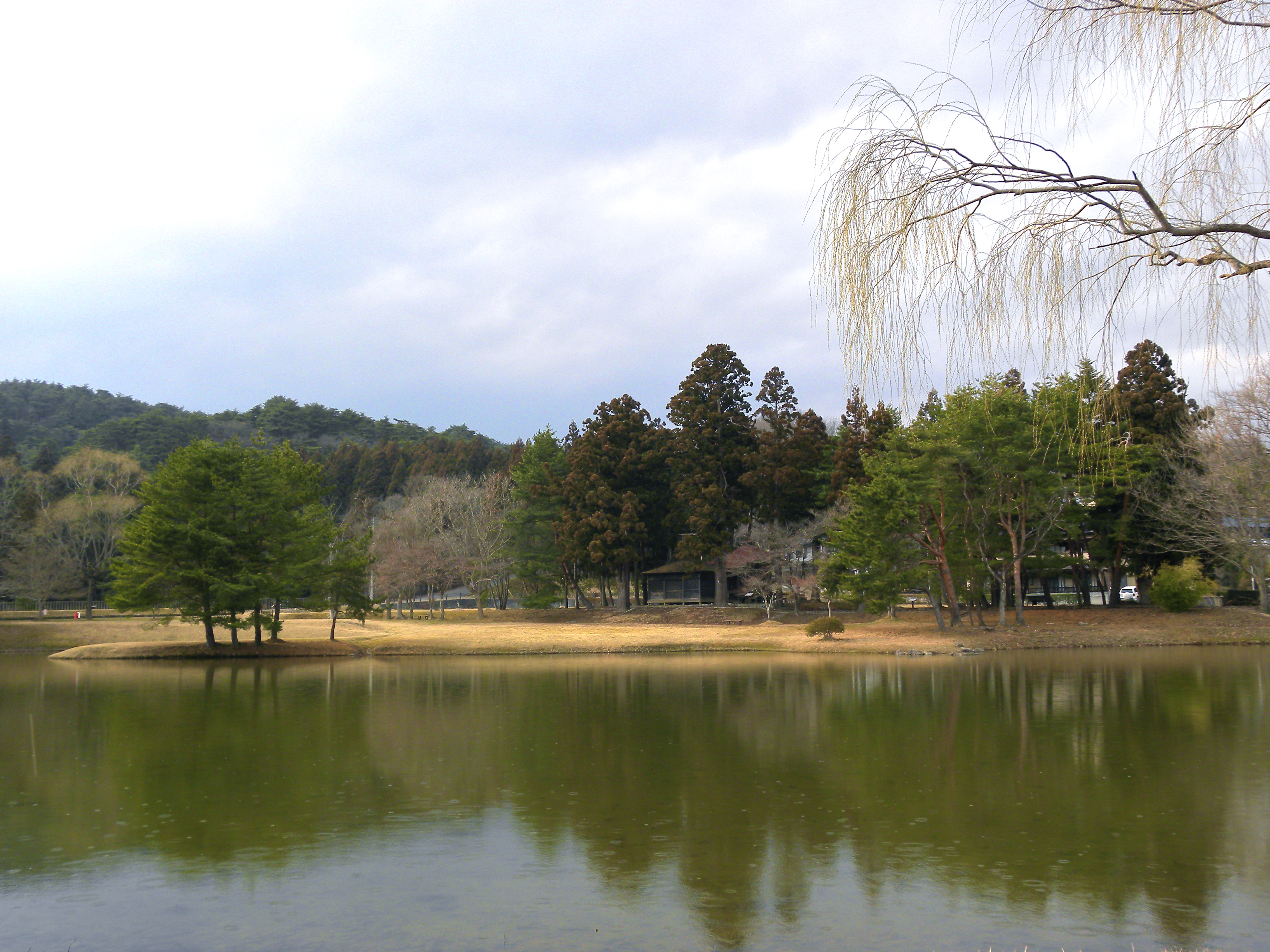 Site of Kanjizaiō-in temple, Hiraizumi, Japan